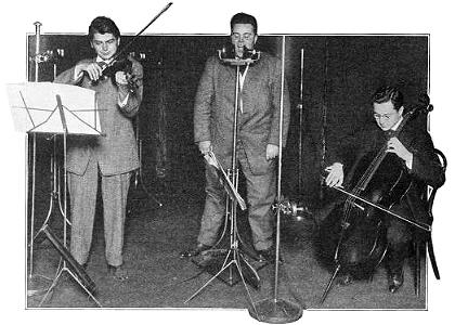 Entertainers performing over the New Jersey Telephone Herald in Newark